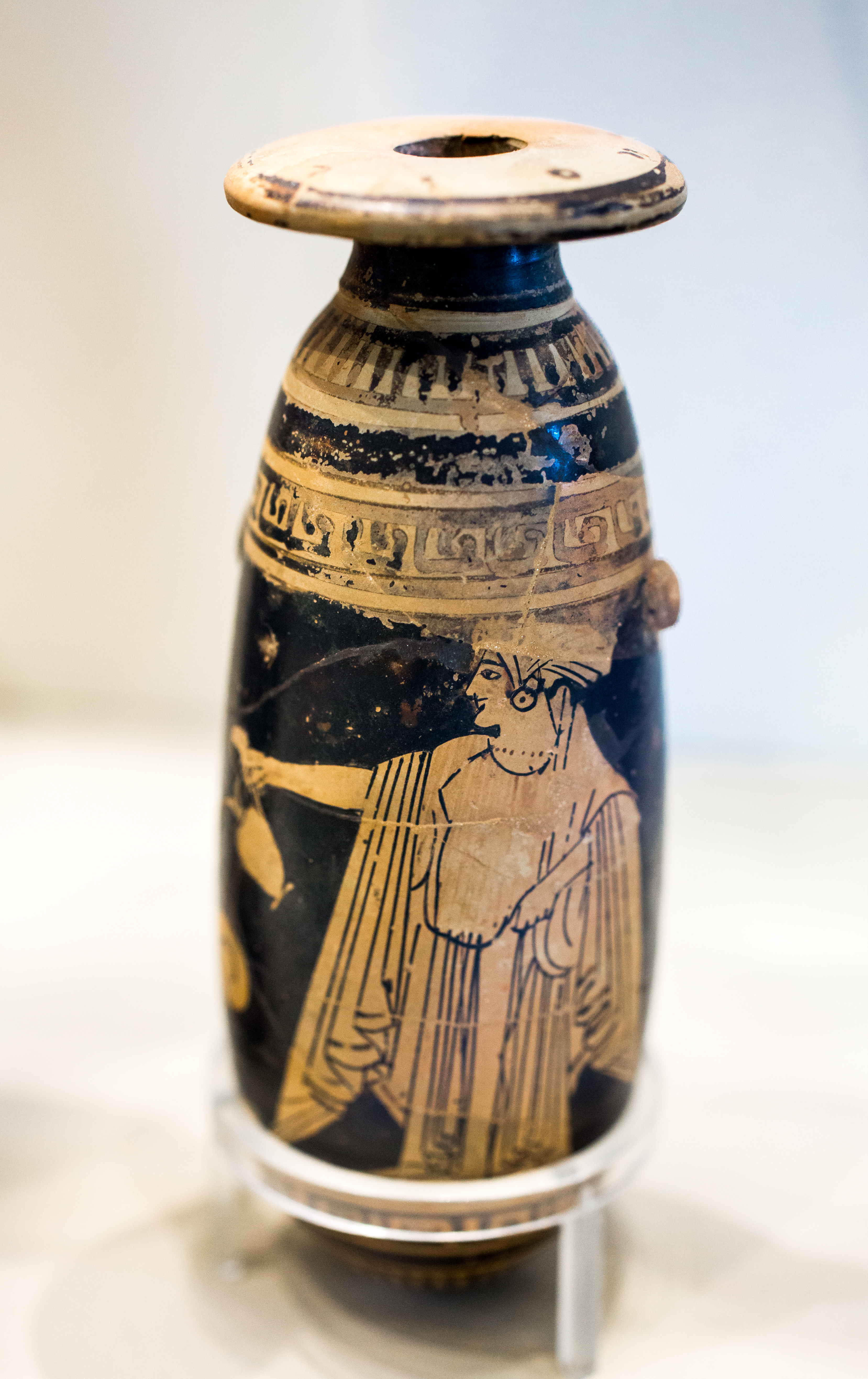 object type / vase shape: attic red figure alabastron - description: woman sittin in chair, woman pouring an offering from an oinochoe onto an altar; inscriptions: on the mouth-plate: PAIS KALOS; on the body between the women: nonsense inscription - production place: Athens - painter: manner of the Euergides Painter, group of the Paidikos Alabastra - period / date: lat archaic, ca. 510-500 BC - material: pottery (clay) - height: 12,3 cm - museum / inventory number: Tübingen, Schloss Hohentübingen, Museum der Universität, Museum Alte Kulturen E 49 / S./10 1390 - bibliography: John D. Beazley, Attic Red-Figure Vase-Painters, Oxford 1963(2), - Johannes Burow, CVA Tübingen 5, 1986, plate 36, 1-4 - Please note: The above museum permits photography of its exhibits for private, educational, scientific, non-commercial purposes. If you intend to use the photo for any commercial aime, please contact the museum and ask for permission.